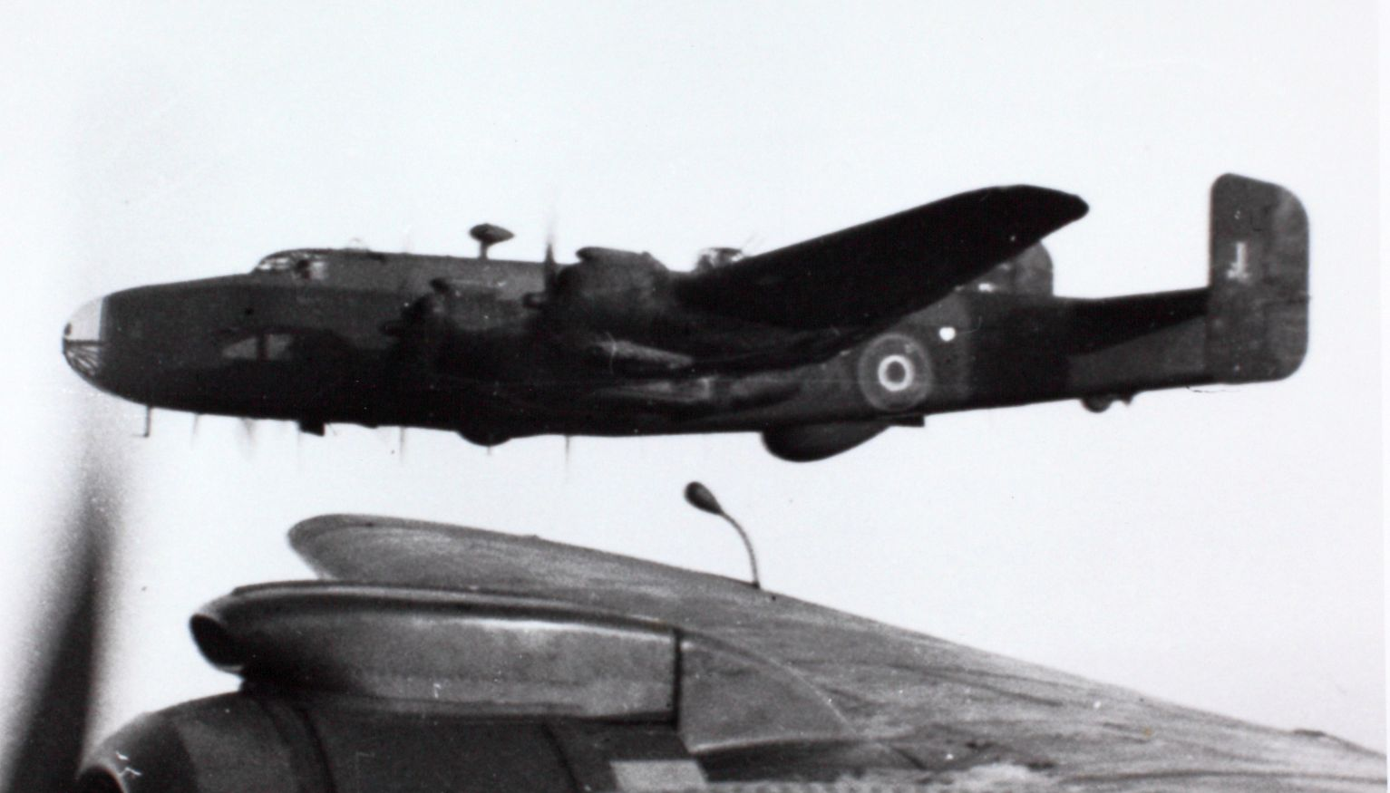 Image from the Charles Daniels Photo Collection album "British Aircraft." SOURCE INSTITUTION: San Diego Air and Space Museum Archive